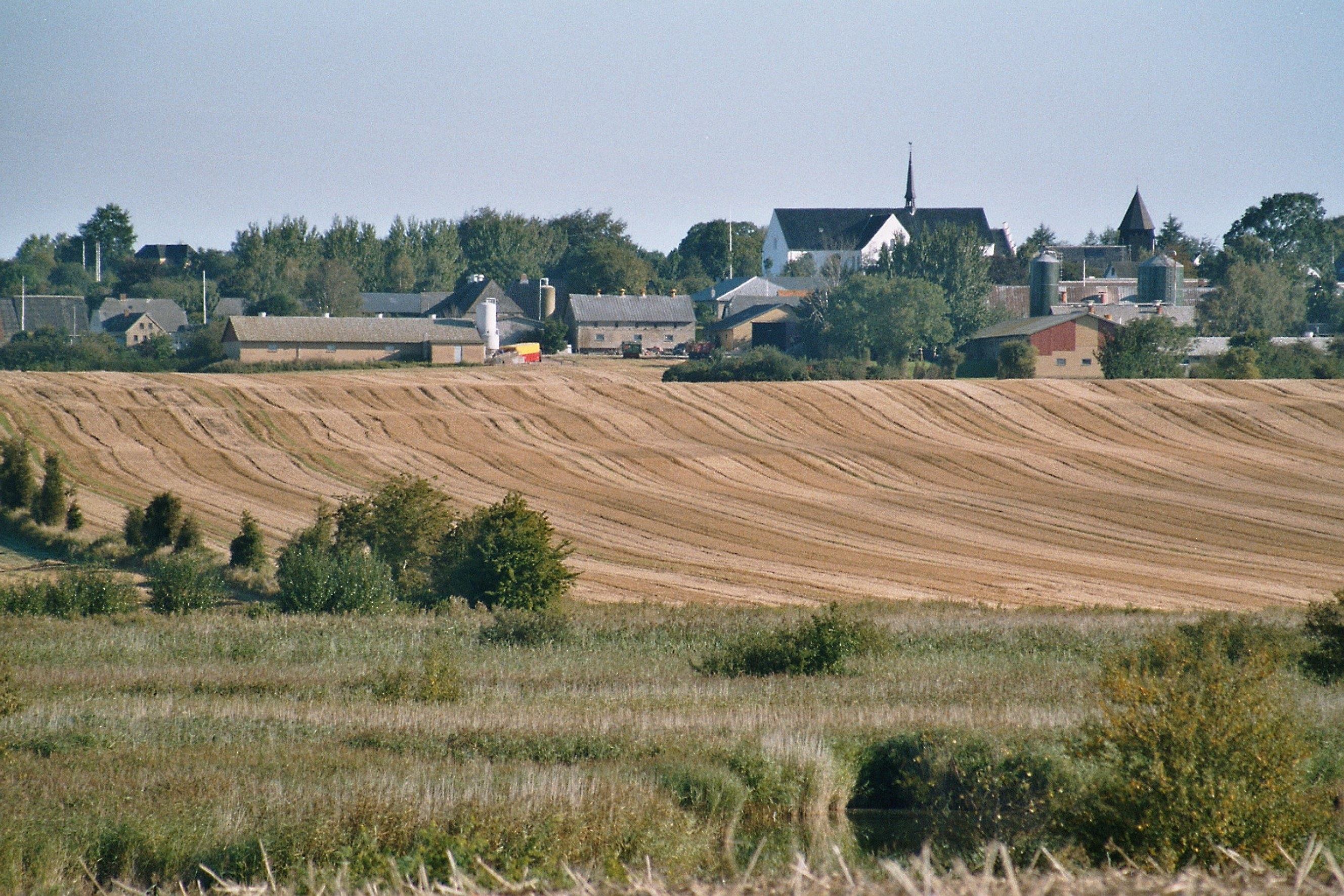 Egen (Als island), View from south (telephoto